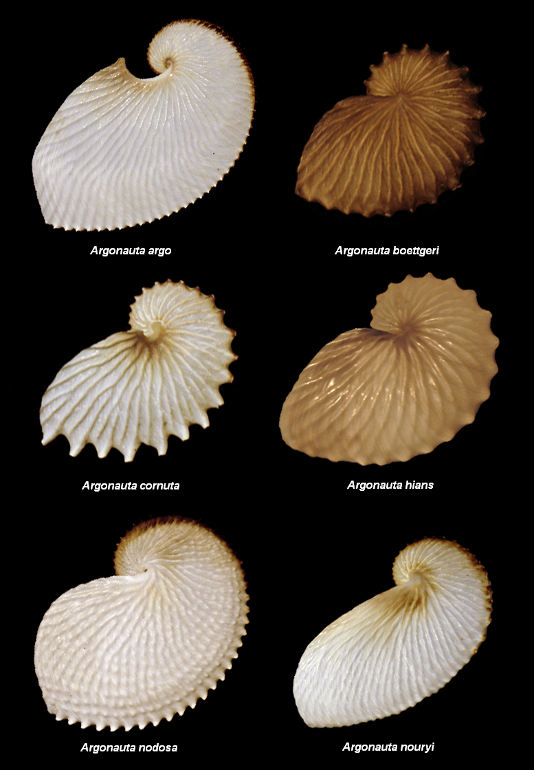 Argonauta species Argonauta argo [See also species category] Argonauta bottgeri [See also species category] Argonauta cornuta [See also species category] Argonauta hians [See also species category] Argonauta nodosa [See also species category] Argonauta nouryi [See also species category] Images taken by User:Mgiganteus1